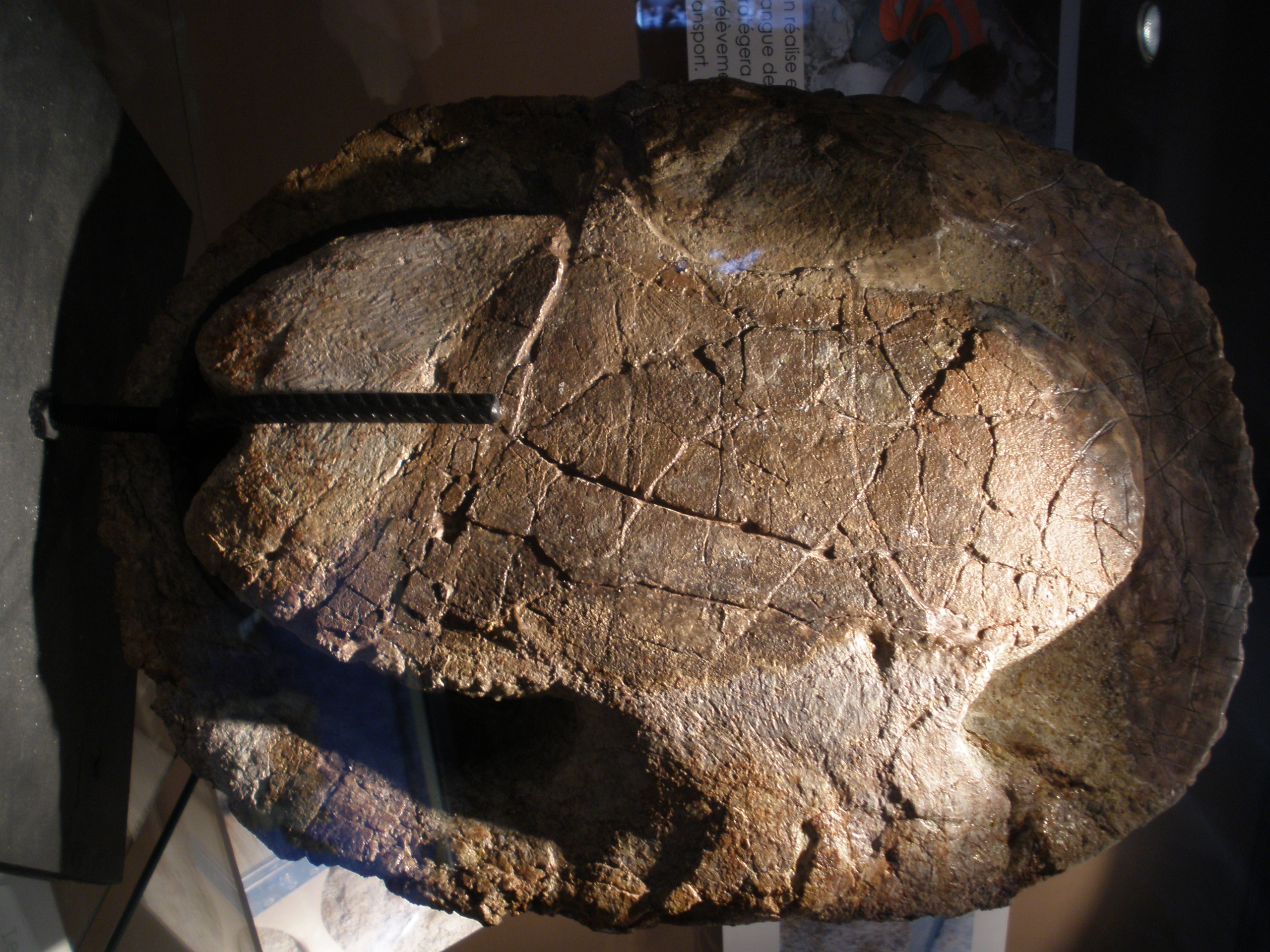 fossil plastron of Foxemys, an extinct turtle